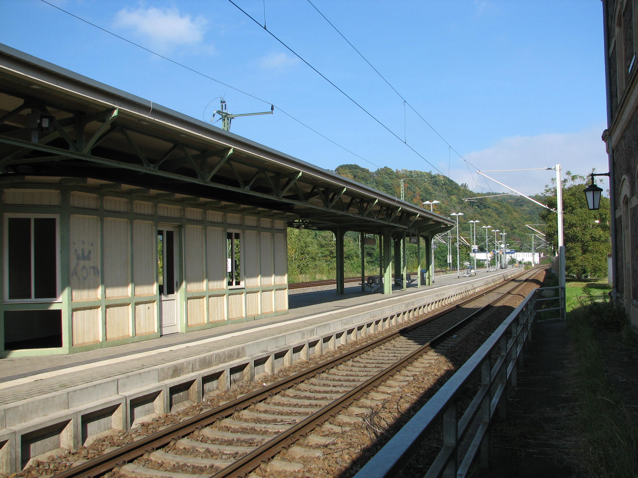 The station in Freital-Potschappel